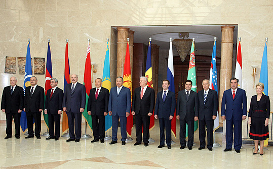 BISHKEK. Before the start of the summit of CIS Council of Heads of State. From left: Sergei Lebedev, Artur Rasizade, Serzh Sargsyan, Alexander Lukashenko, Nursultan Nazarbeyev, Kurmanbek Bakiyev, Vladimir Voronin, Dimitry Medvedev, Gurbanguly Berdimuhamedow, Islam Karimov, Emomalii Rahonon, Raisa Bogatyrova